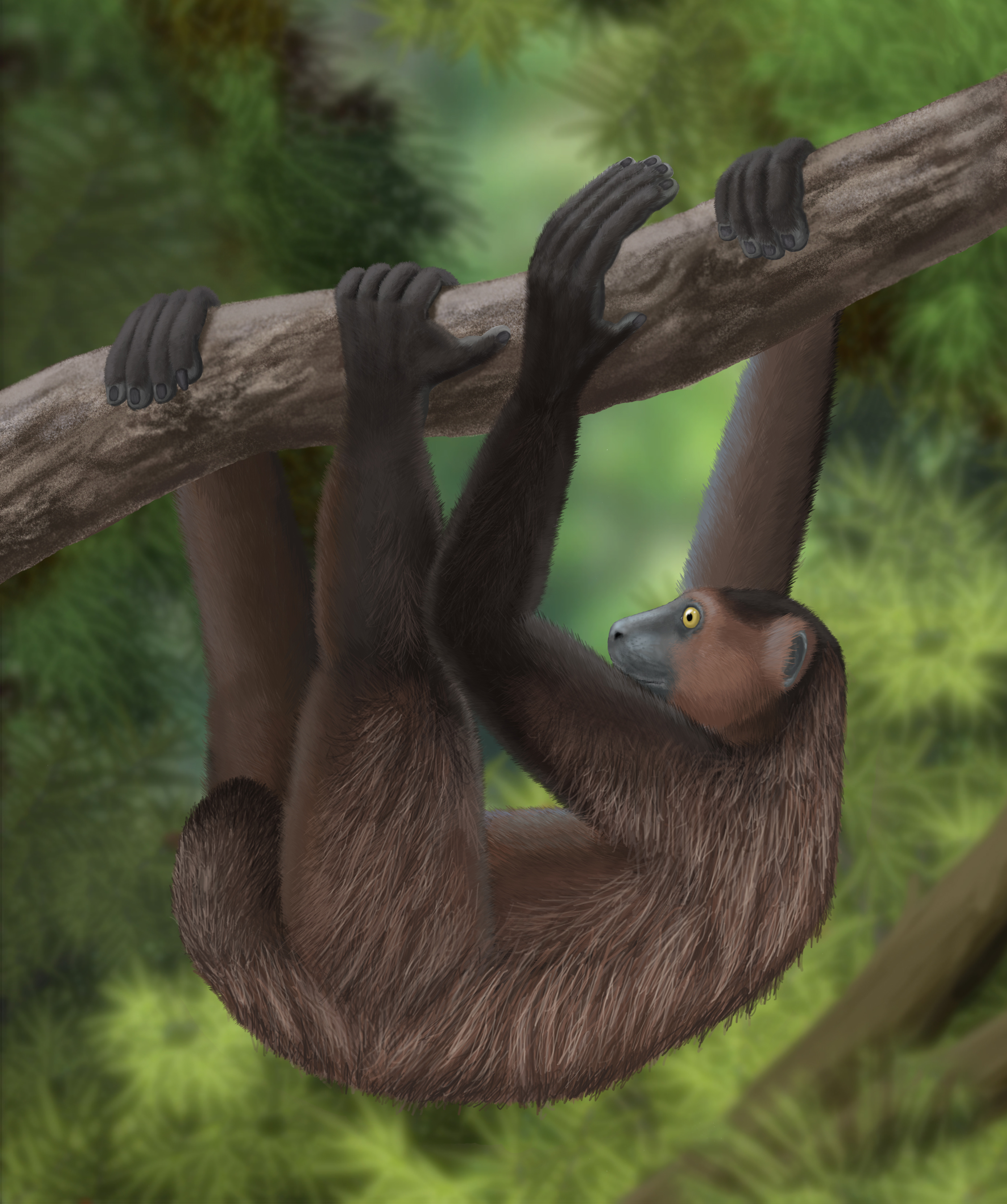 Life restoration of Babakotia radofilai. Based on photograph of skull, photograph of skeleton in Natural Change and Human Impact in Madagascar, and correspondence with Dr. Laurie Godfrey.